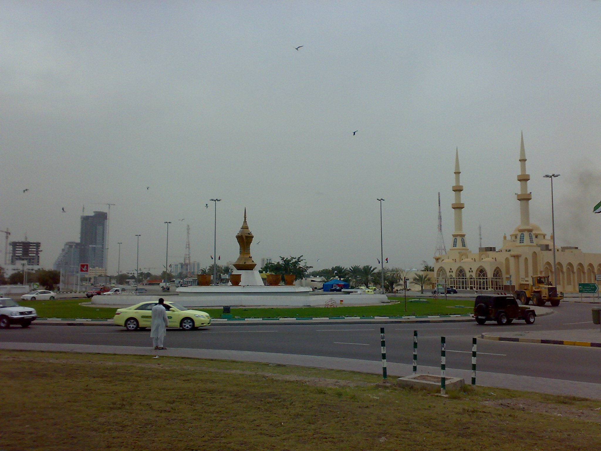 Construction in eastern Fujeirah city